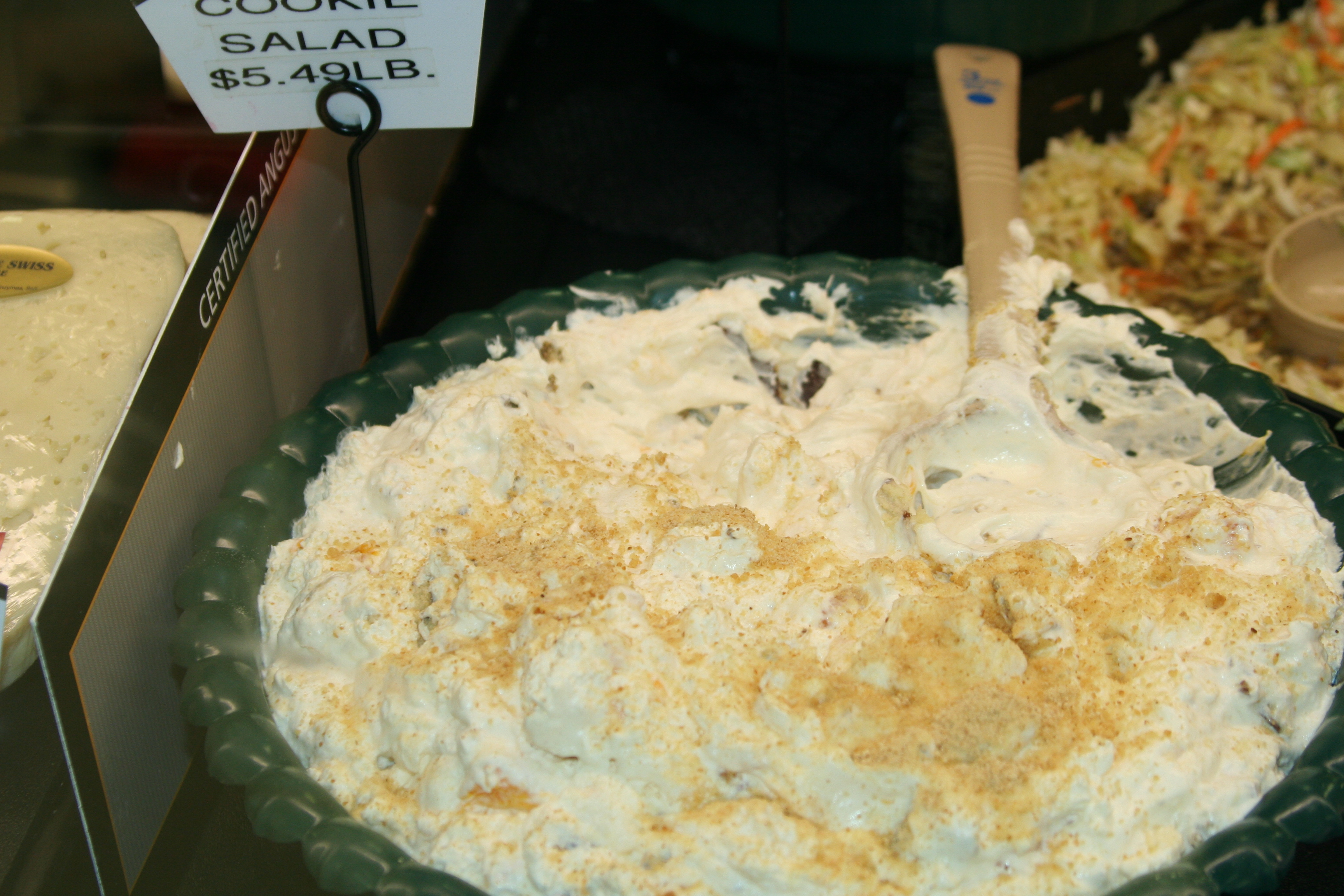 Cookie salad from a supermarket in the land of ice and snow (Minnesota). A courtesy note to let me know when this photo is being used would be appreciated.